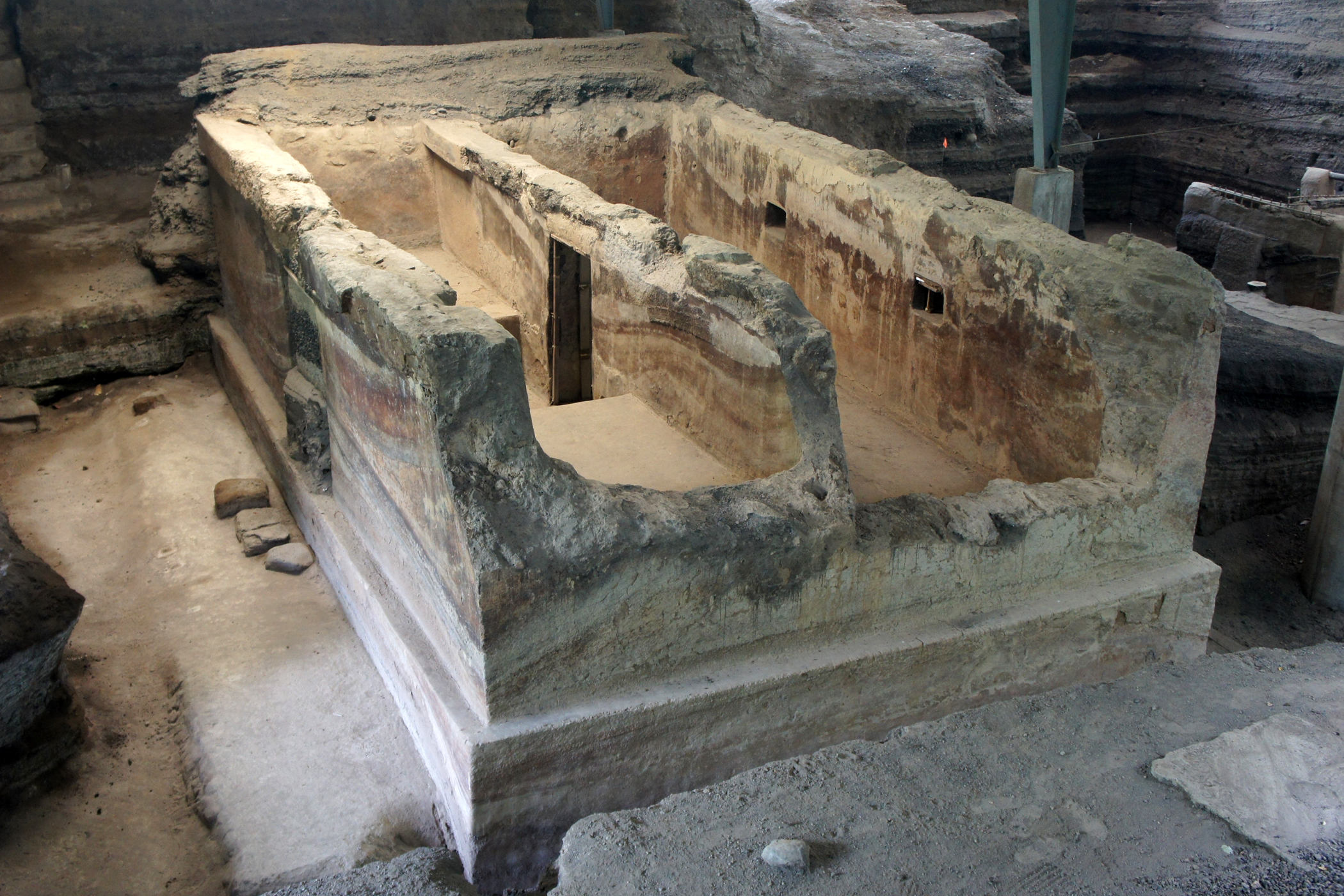 Structure 3 at area 3, part of the remains of the maya village of Joya de Cerén buried by volcano eruption around A.D. 600. Joya de Cerén Archaeological Site, El Salvador.